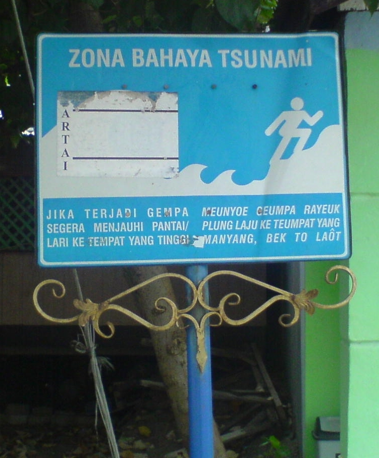 Bilingual sign about tsunami warning in Indonesian and Acehnese language